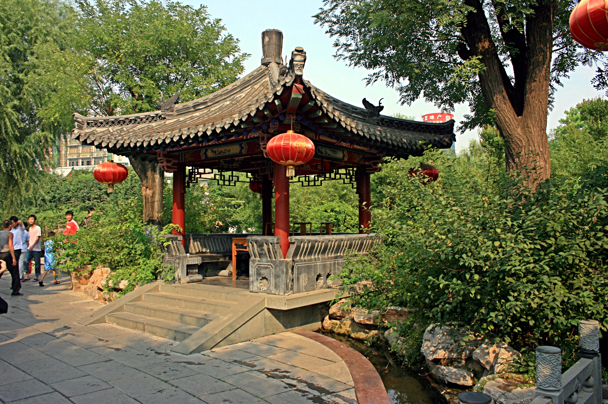 A garden pavilion in the Baotu Spring Park. Located in Jinan, Shandong Province, eastern China.